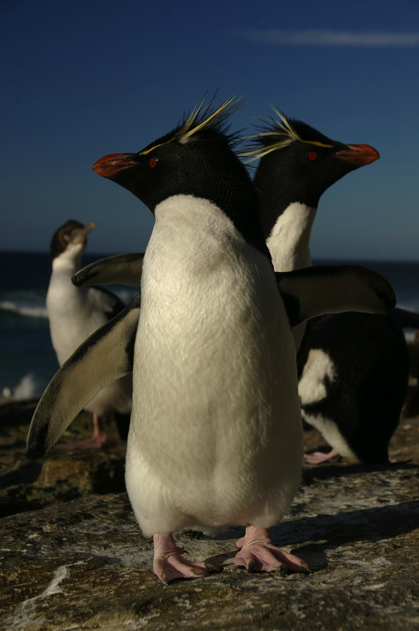 (Southern) Rockhopper Penguins (Eudyptes chrysocome), Saunders Island, Falkland Islands